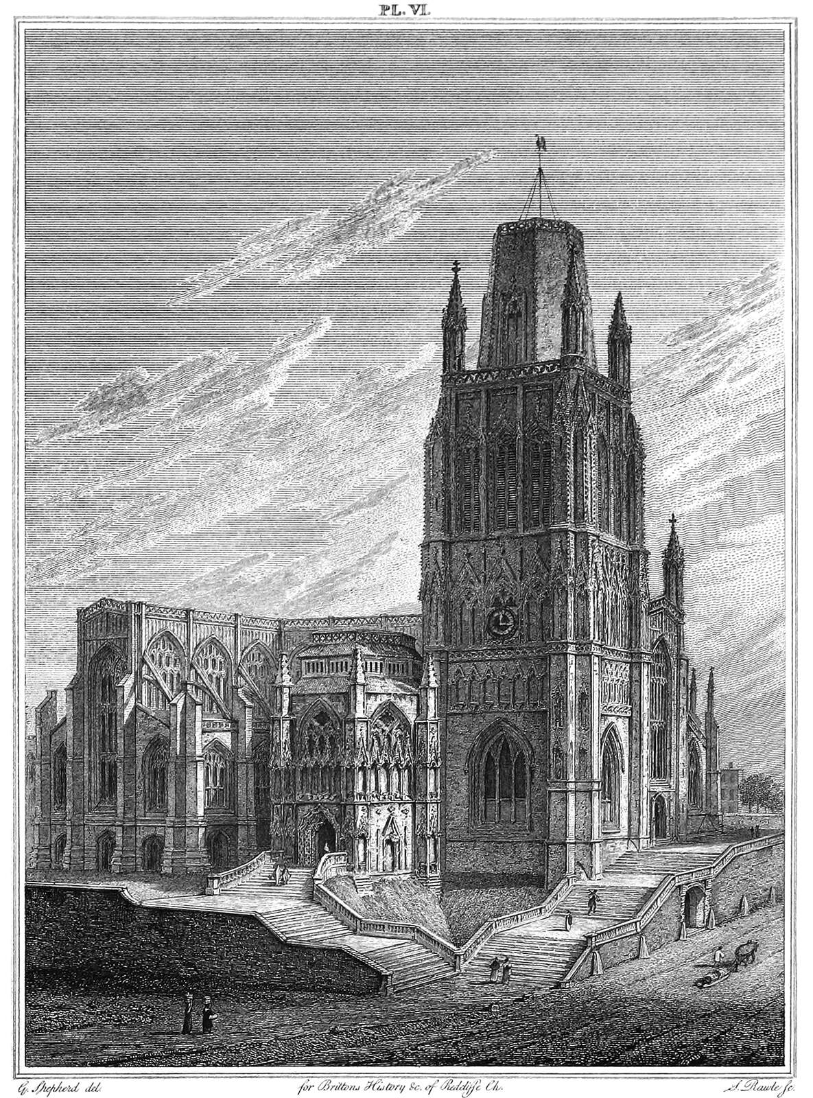 Black and white etching of St Mary Redcliffe church, Bristol, England, published before 1850. The view is from the northwest, showing the tower at the west end with its distinctive truncated spire and the elaborate system of steps to access the church by the North Porch. In the foreground are eight figures climbing the steps towards the church and a cattle drover.